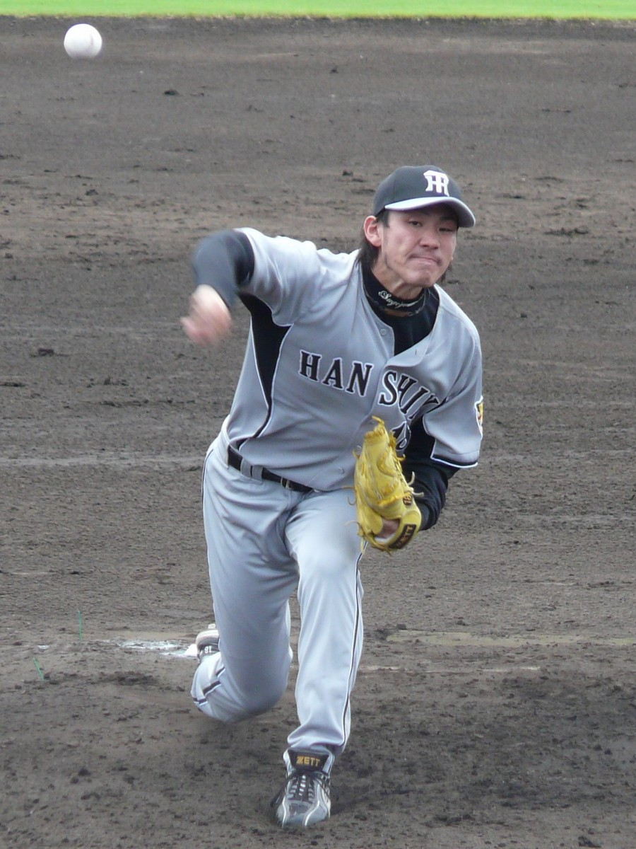 Hanshin Tigers/Naohisa Sugiyama